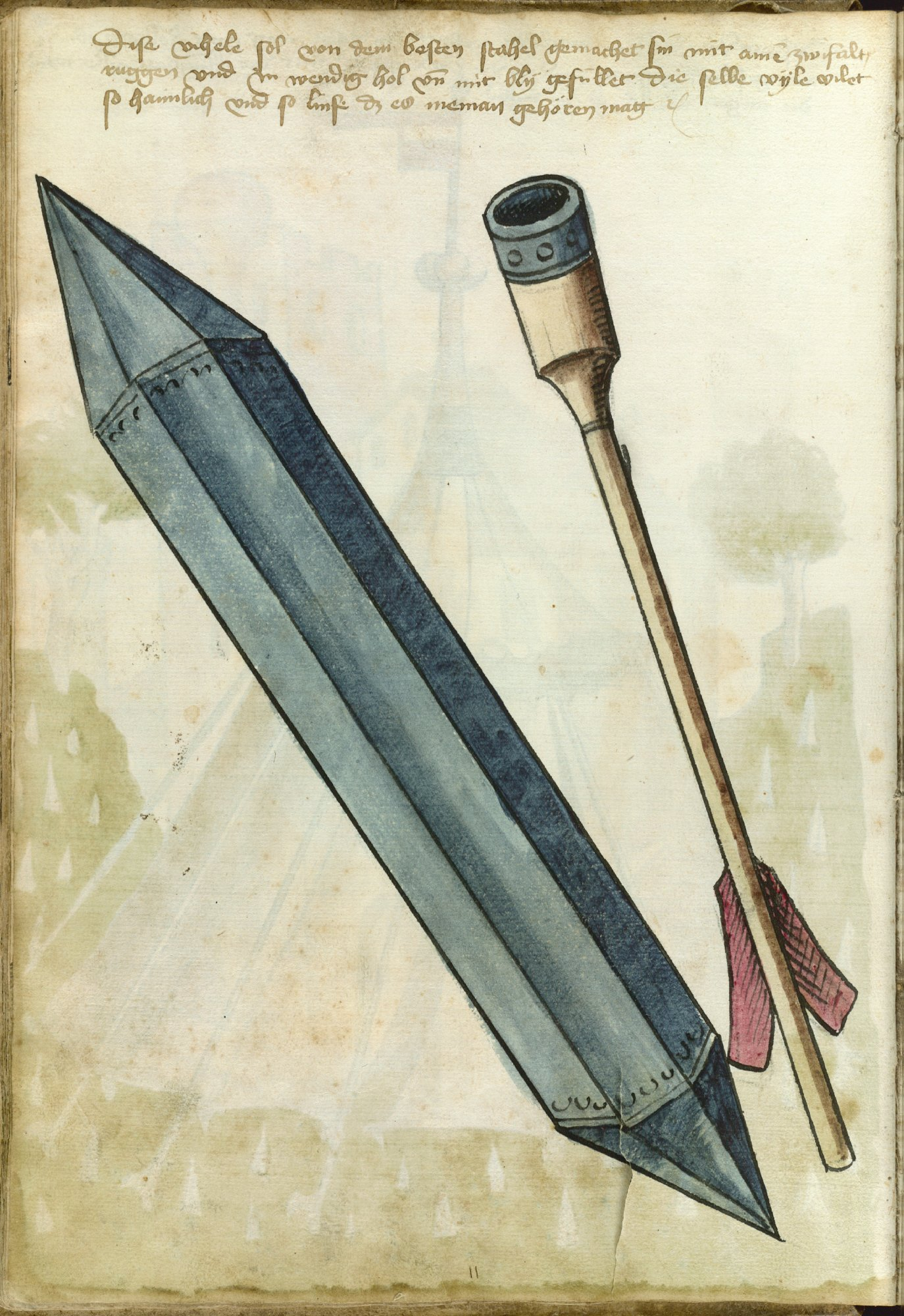 The Ms.Thott.290.2º is a fencing manual written in 1459 by Hans Talhoffer for his own personal reference and illustrated by Michel Rotwyler.